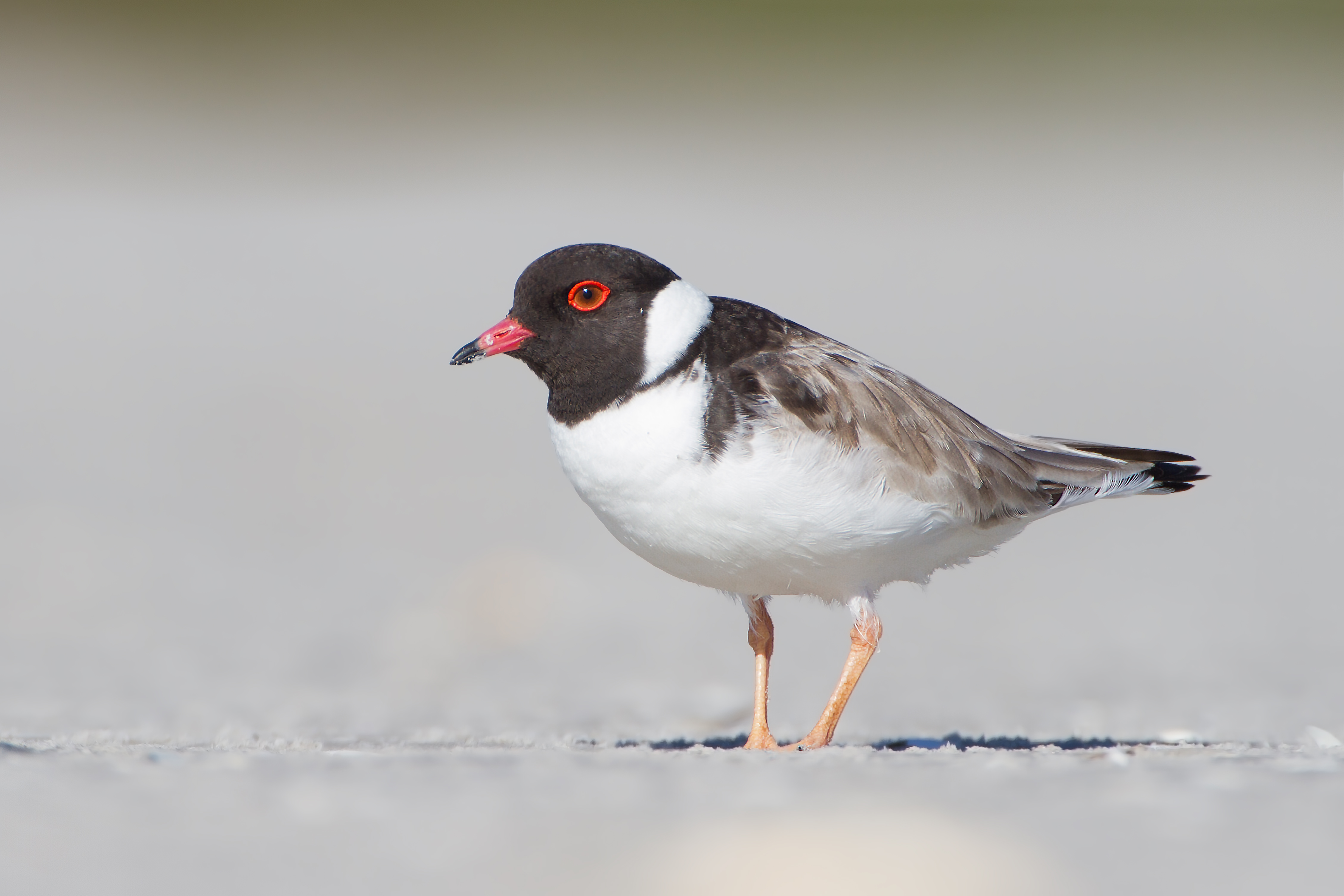 Hooded Plover (Thinornis rubricollis rubricollis), Prosser River Spit, Orford, Tasmania, Australia